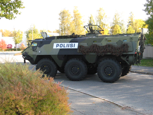 Panssari-Sisu XA-185 in Kauhajoki few hours after Kauhajoki shooting incident.